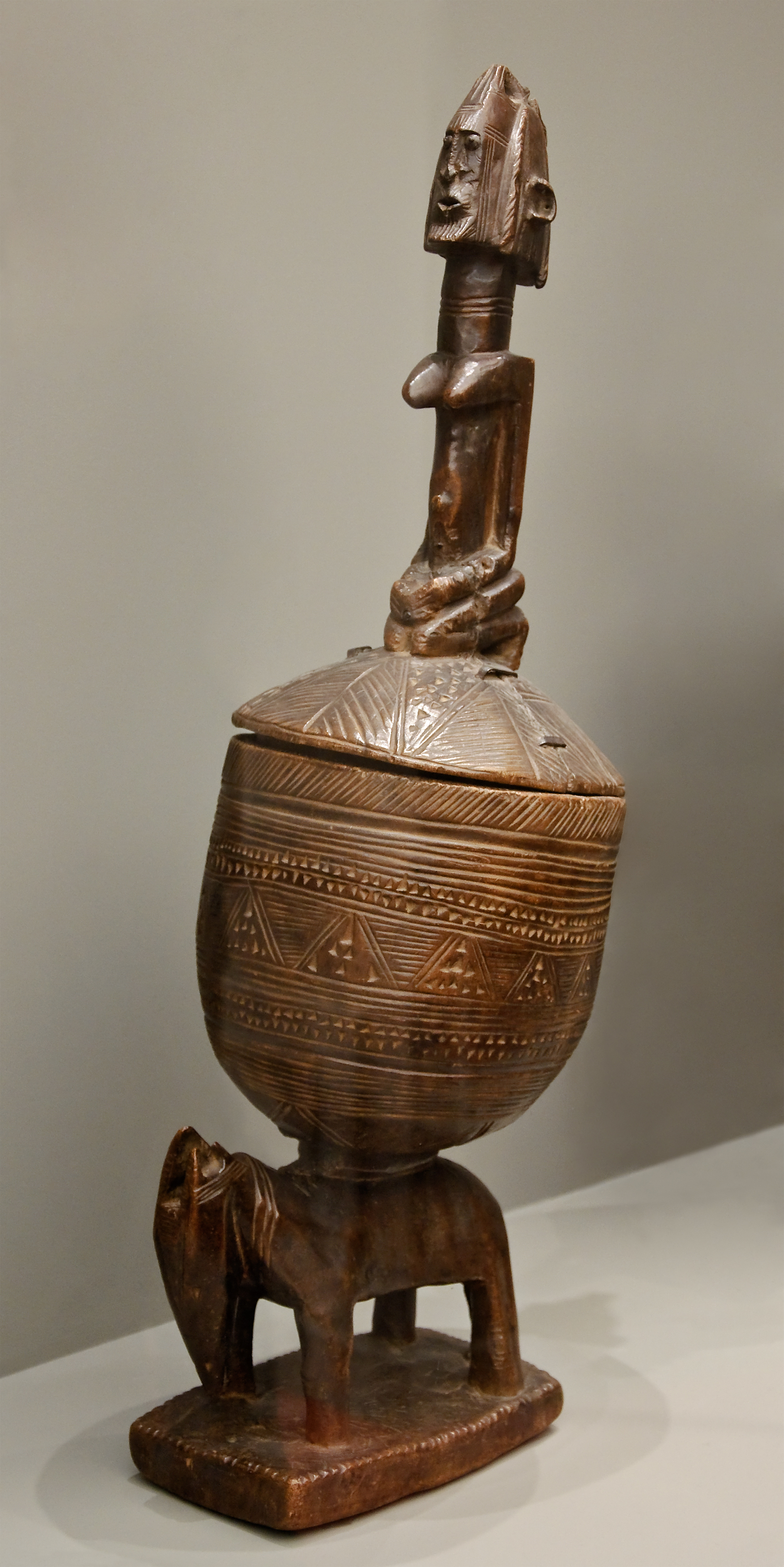 Hogon cup (Ogo banya). Provenance : Mali. This kind of ornamented container may carry food (rice, etc.) and was especially used during the enthronement ceremony of the Hogon, the political and spiritual leader in a Dogon village.